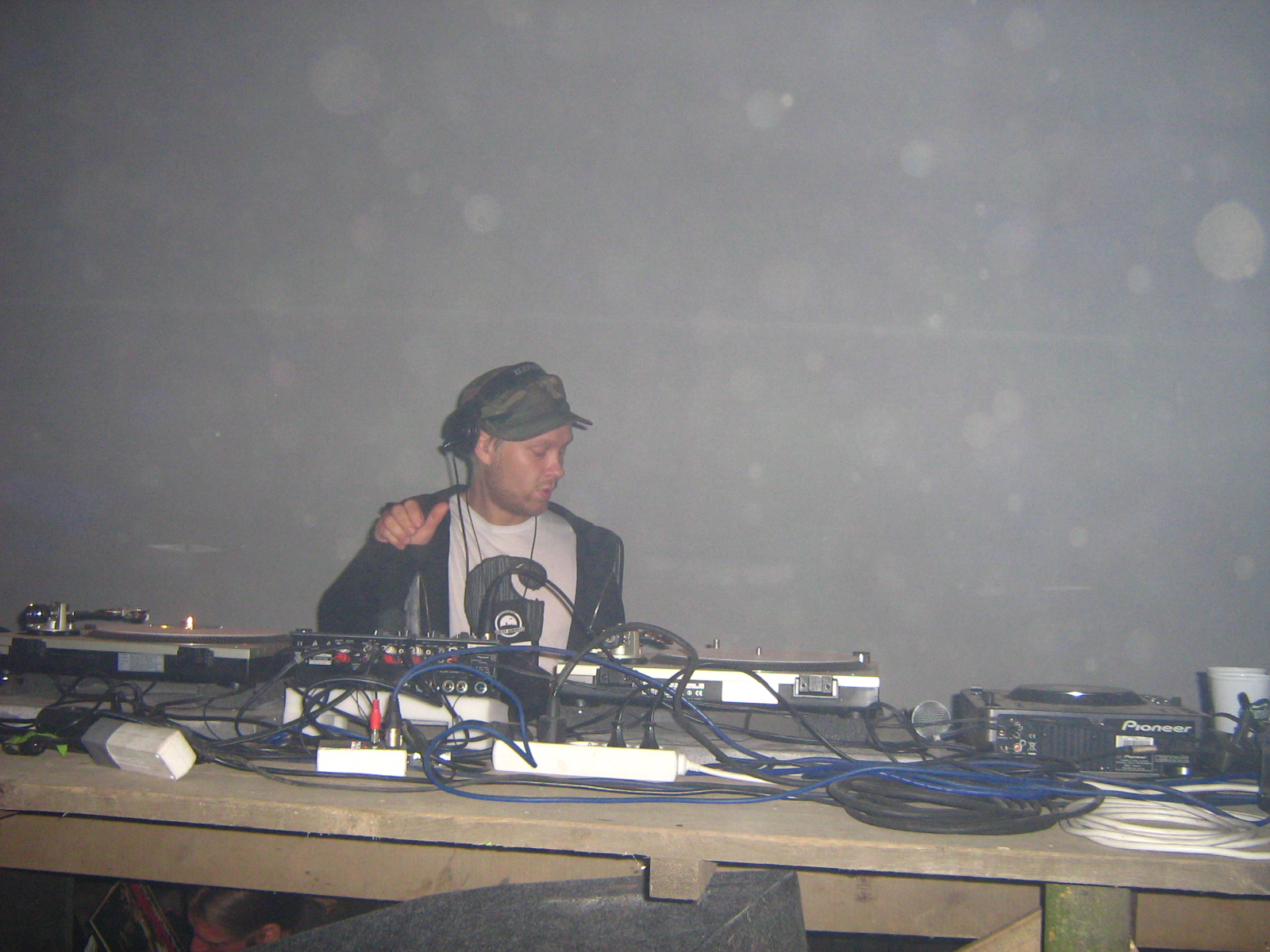 Dj Muffler performing on Czech electro music festival Suncastle 2007 Dj Muffler na festivalu Suncastle 2007